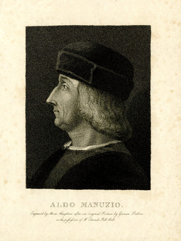 Portrait of Aldus Manutius